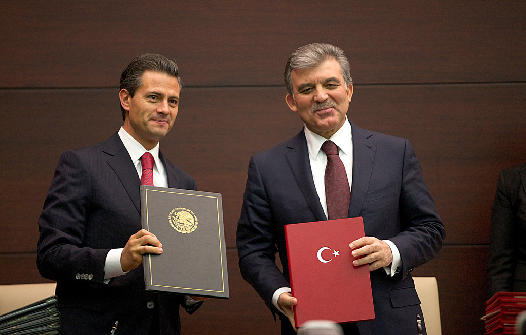 Firma de documentos. Enrique Peña Nieto y Abdullah Gül. Ankara, Turquía. 17 de diciembre de 2013.